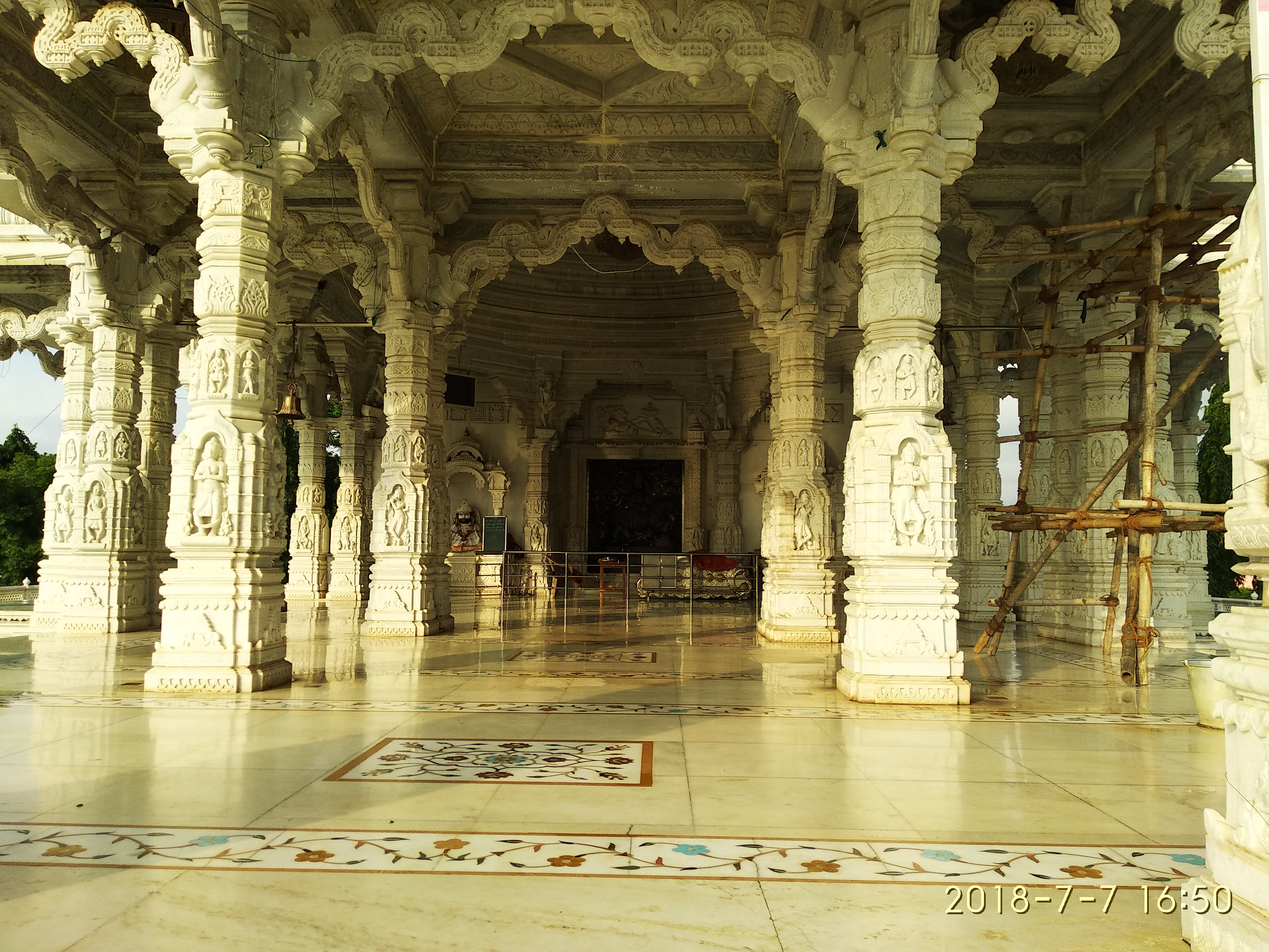 Ramapir Temple in Odisha (Between in Bhubaneswar & cuttack)